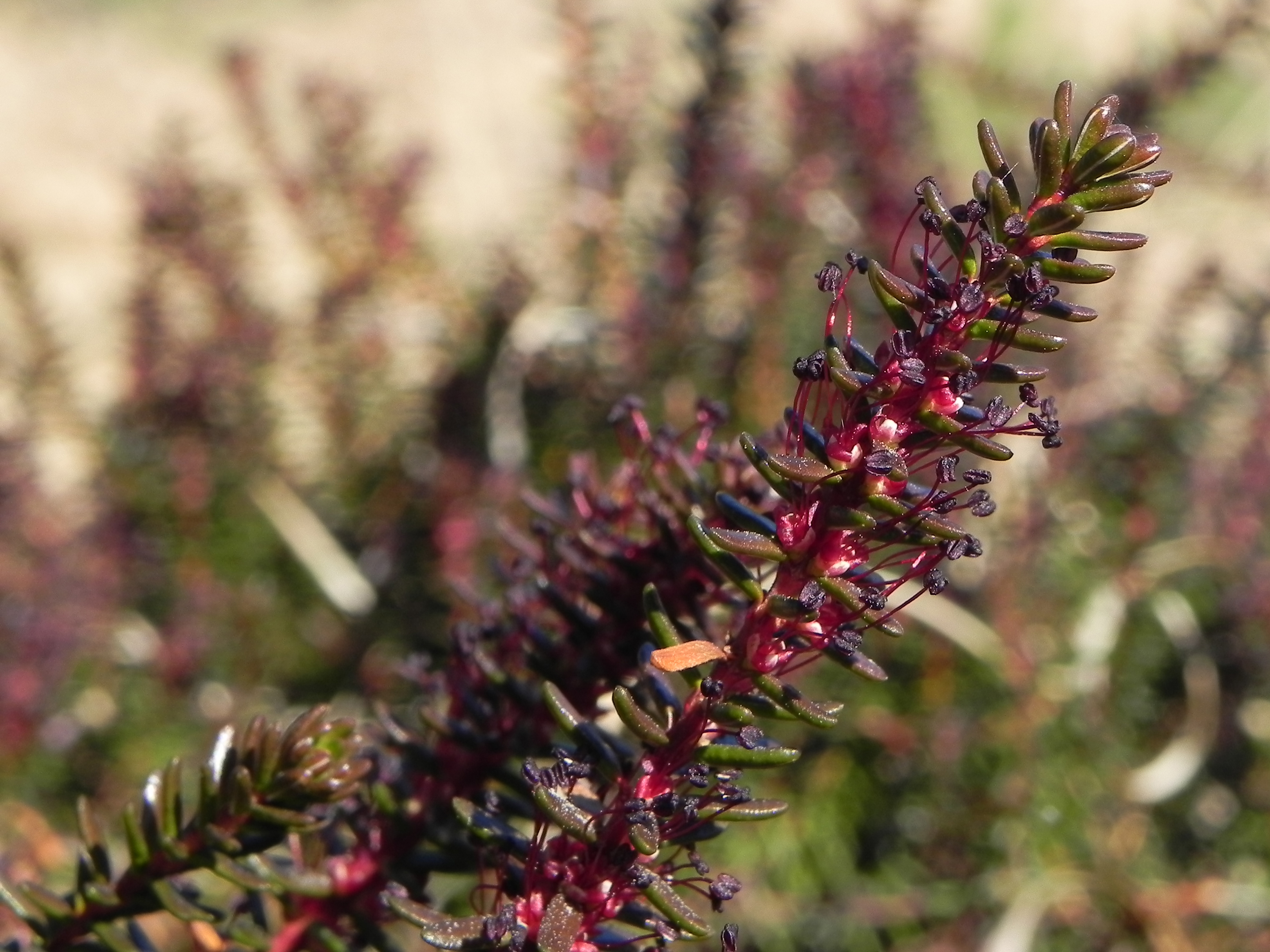 Empetrum nigrum, "Southern Heath Nature Park", Germany